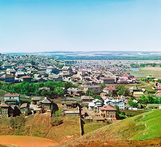 A view of Ufa.